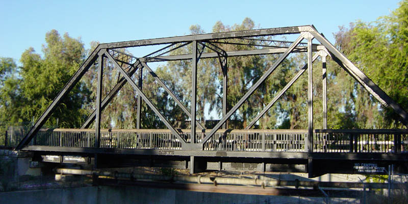 A Southern Pacific Railroad bridge, now part of the Iron Horse Regional Trail in Contra Costa County, California. This crosses a channelized Walnut Creek at the Concord-Pleasant Hill boundary immediately south of Monument Boulevard, altered by blurring the background for clarity and image compression. This is a single track railroad bridge now used for pipeline support and to carry a 'rail trail' pedestrian and bicycle path. The two outer vertical elements are in tension. The central vertical element carries no significant load but stabilizes the upper horizontal chord, which is under compression. The outer vertical elements are in tension and support the deck. The outer diagonal elements are also in compression while the inner diagonals are in tension. Often, Lower chord horizontal elements are in tension, shear, and bending however in this case, the roadbed is supported on a beam structure that runs under the rail tracks, which is in turn supported by the truss at three crossbeams secured at the node points and the abutments. Thus the truss lower chords are in pure tension. Some trusses do not use vertical elements, using greater resistance to bending in the horizontal elements to compensate. One form of truss uses a large number of diagonal elements to form a lattice-like structure. A truss like this may be designed with the roadbed and footings on the top chord and the other elements below. In that case the vertical element purposes are changed from deck support to chord support and their loadings thus change.